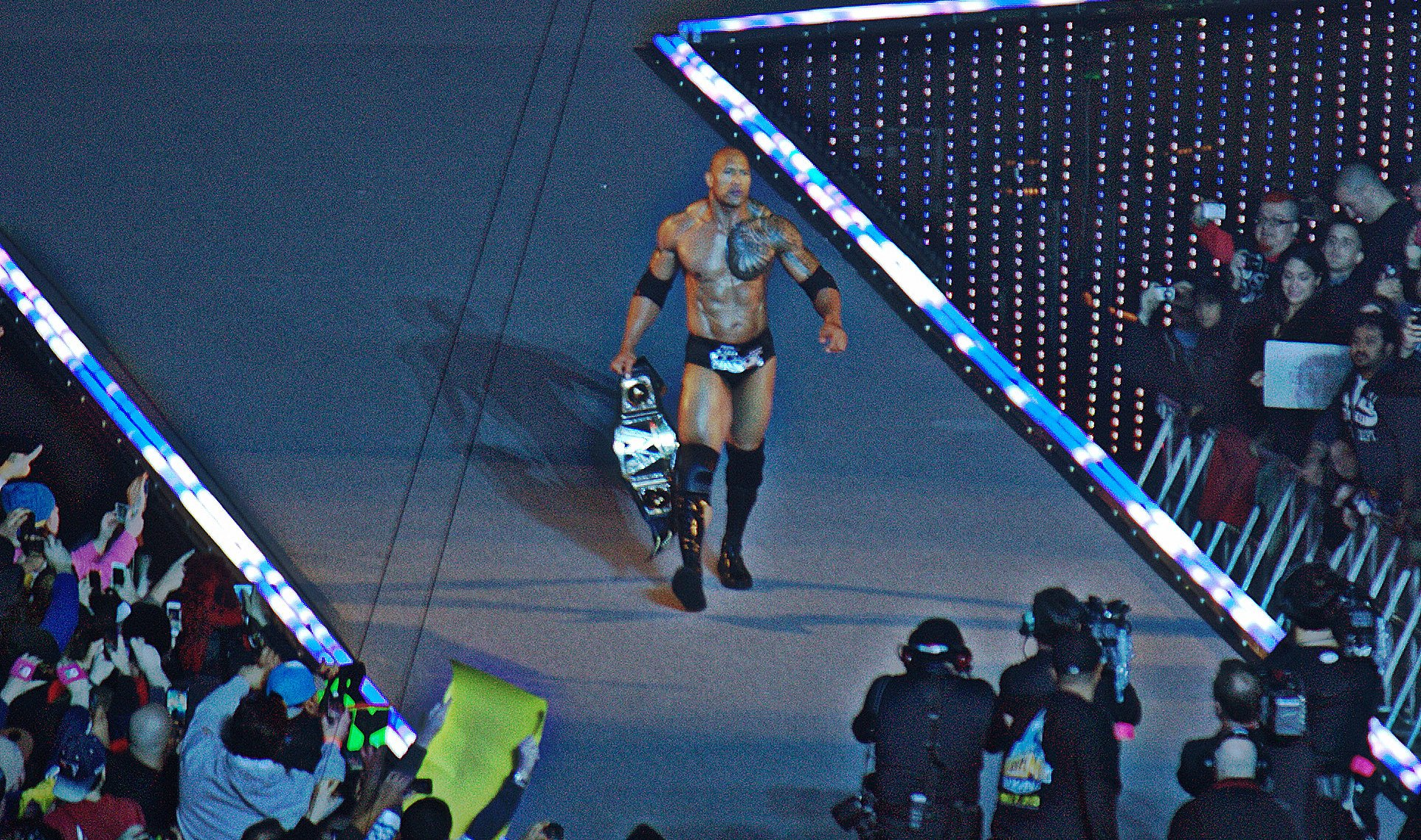 The Rock